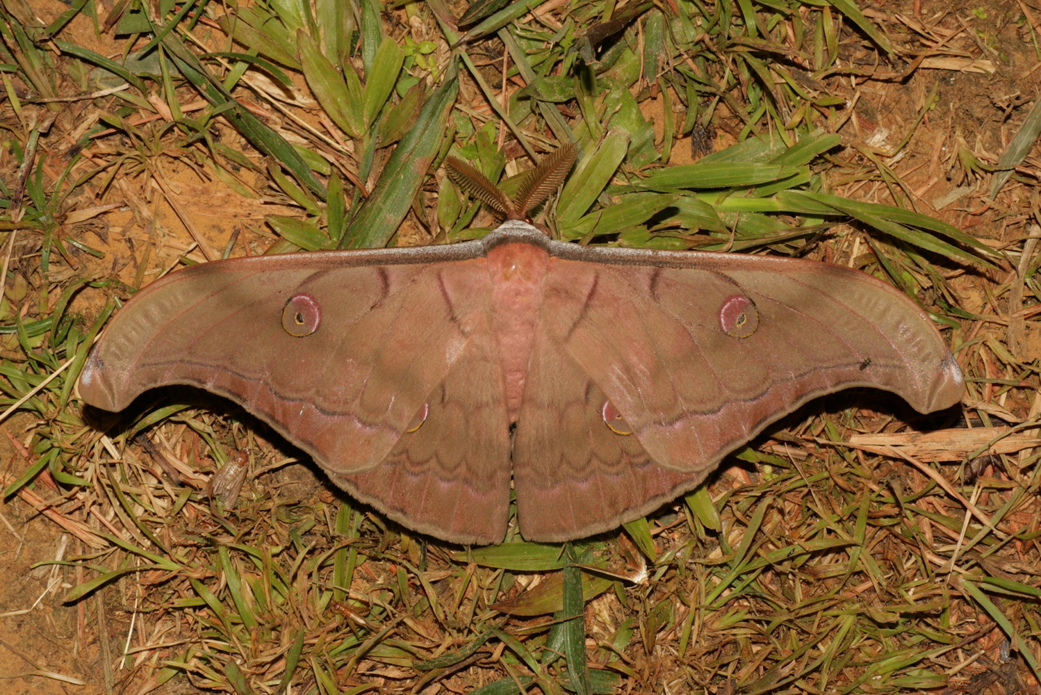 Borneo, Crocker Range National Park April, 2009